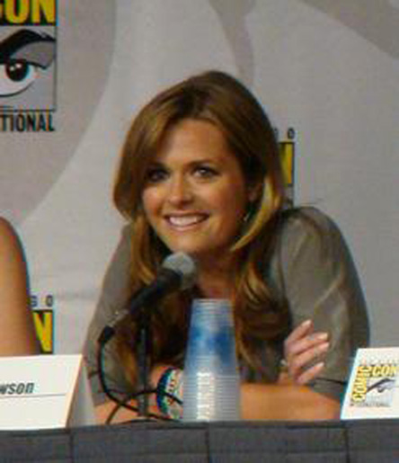 Actress Maggie Lawson at the 2010 San Diego Comic Con.